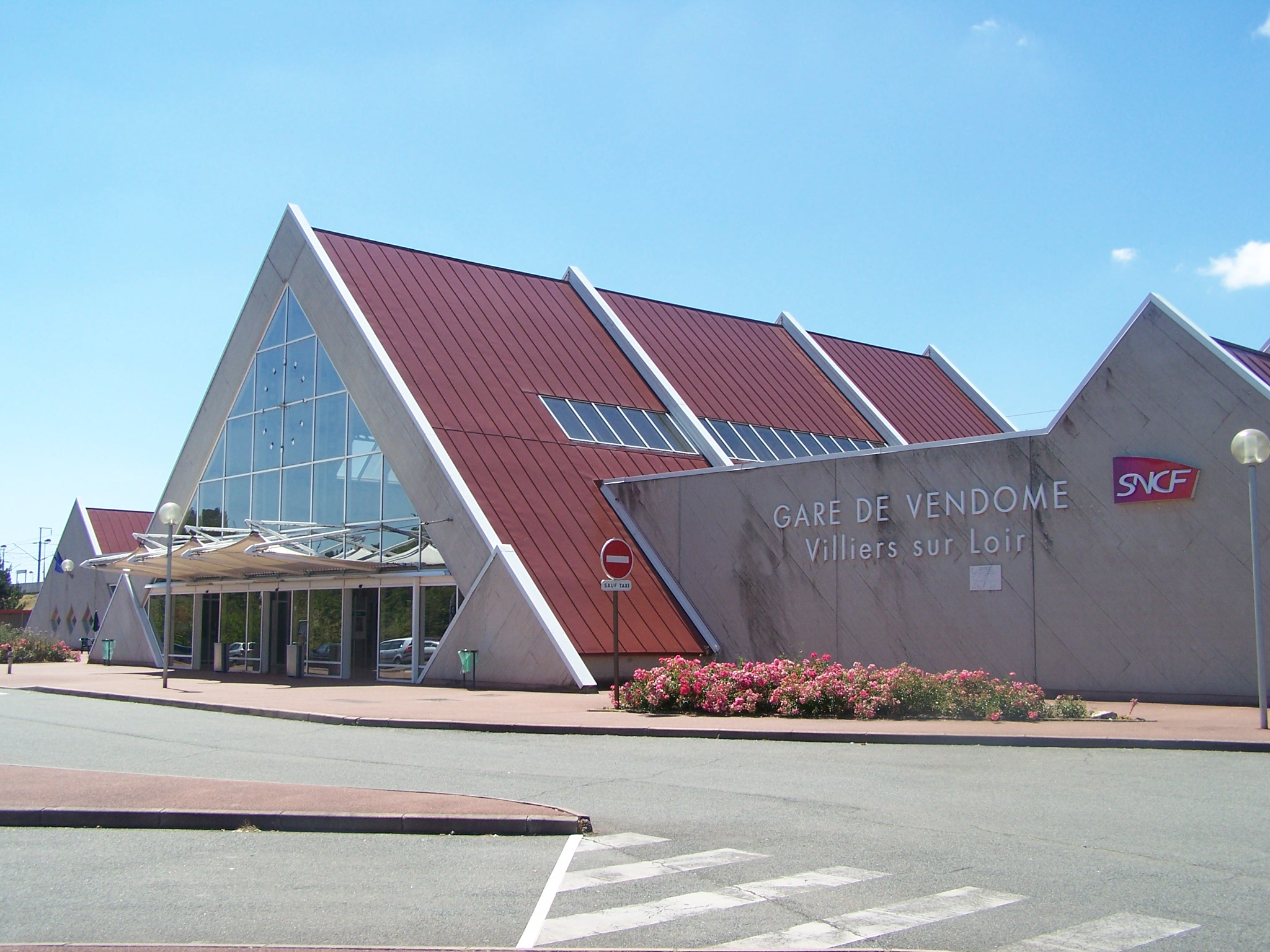 Front and entry of Vendôme - Villers-sur-Loir TGV station, in Loir-et-Cher, France.